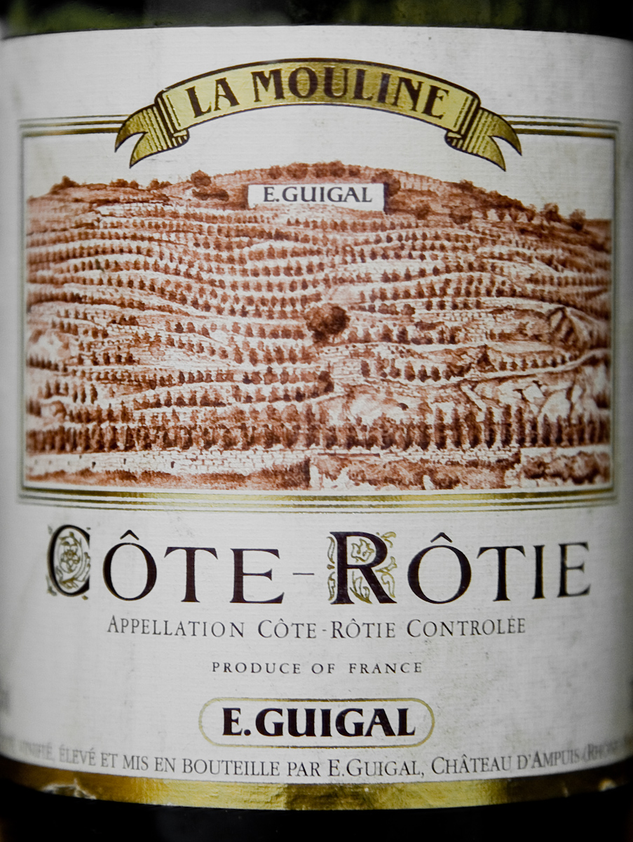 A label on a bottle of 1995 Guigal La Mouline wine.